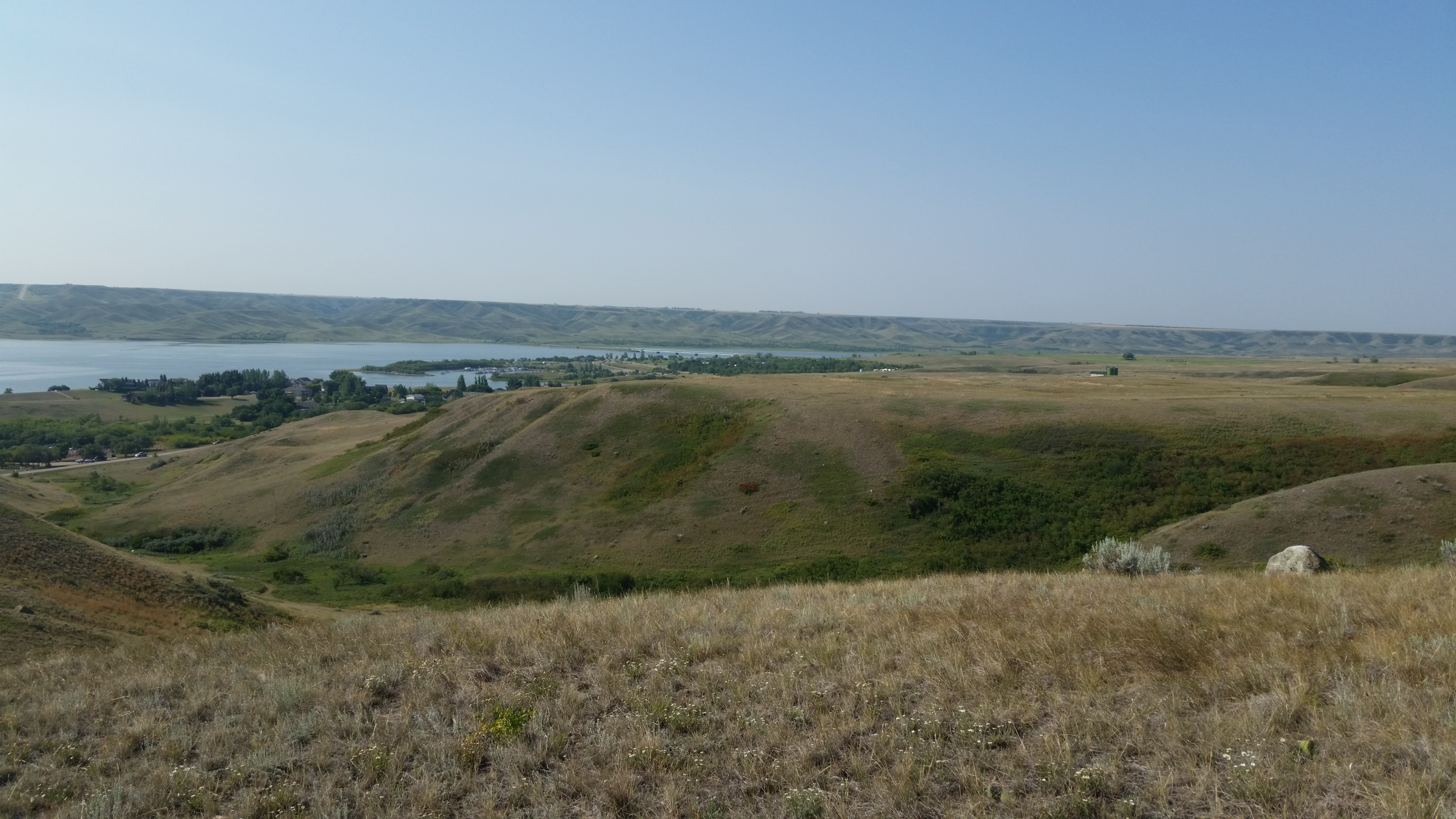 A view of Saskatchewan Landing Provincial Park from the north looking south in August 2018.